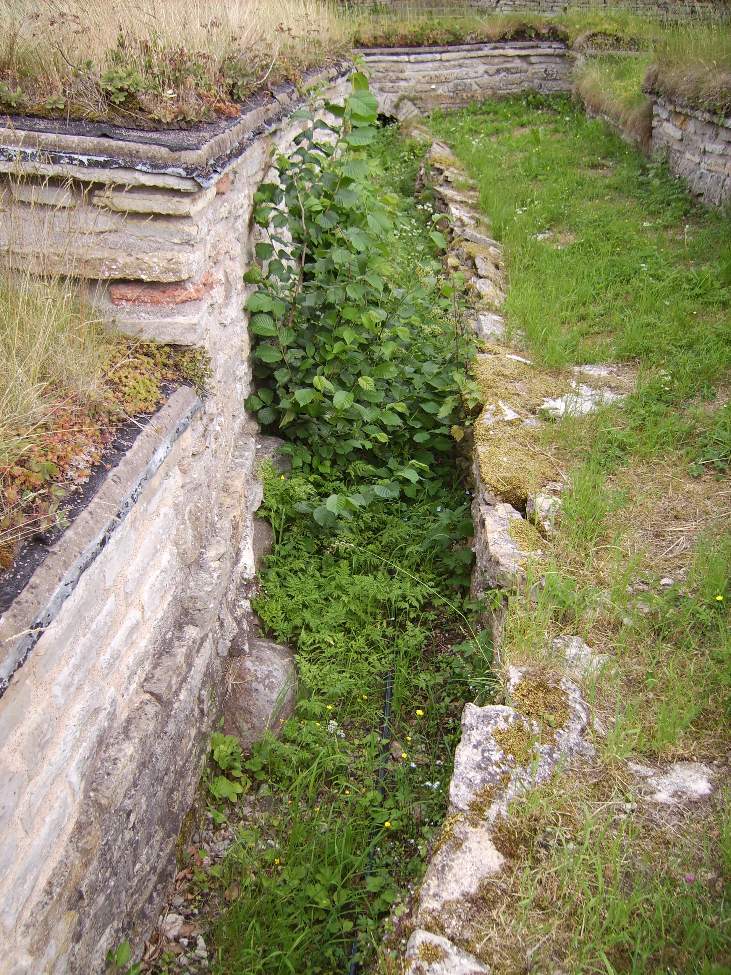 The monastic church Varnhem, convenient in the place Varnhem between the cities Skara and Skövde in the Swedish province Västergötland, is the grave church of the medieval king dynasty Eriks (Knut Eriksson and Erik Knutsson, Erik Eriksson) as well as the master father of the Bjälbo dynasty Birger Jarl and realm chancellor Magnus Gabriel de la Gardie. The monastery Varnhem was created 1150 of Cistercians as a daughter of monastery Alvastra, in the Swedish province Östergötland. The monastic church, originally in Roman style built, was heavily damaged in a fire 1234. It became in early gothic style after the model of the churches of Clairvaux (France) and Marienfeld (Germany) rebuilt. In the centre of the 17th century Swedish realm chancellor Magnus visited de la Gardie, whose county Läckö laid not far from Varnhem, the church. It recognized the value of the church as former royal grave church and let it recondition, since it should accommodate its own burial place (and those family). Between 1918 and 1923 the church was again reconditioned. At the same time the foundation walls of the monastery buildings were excavated. These excavations were taken up to the 1970 years again and are today accessible to the public. Further pieces of find can be visited in the monastery museum beside the church.